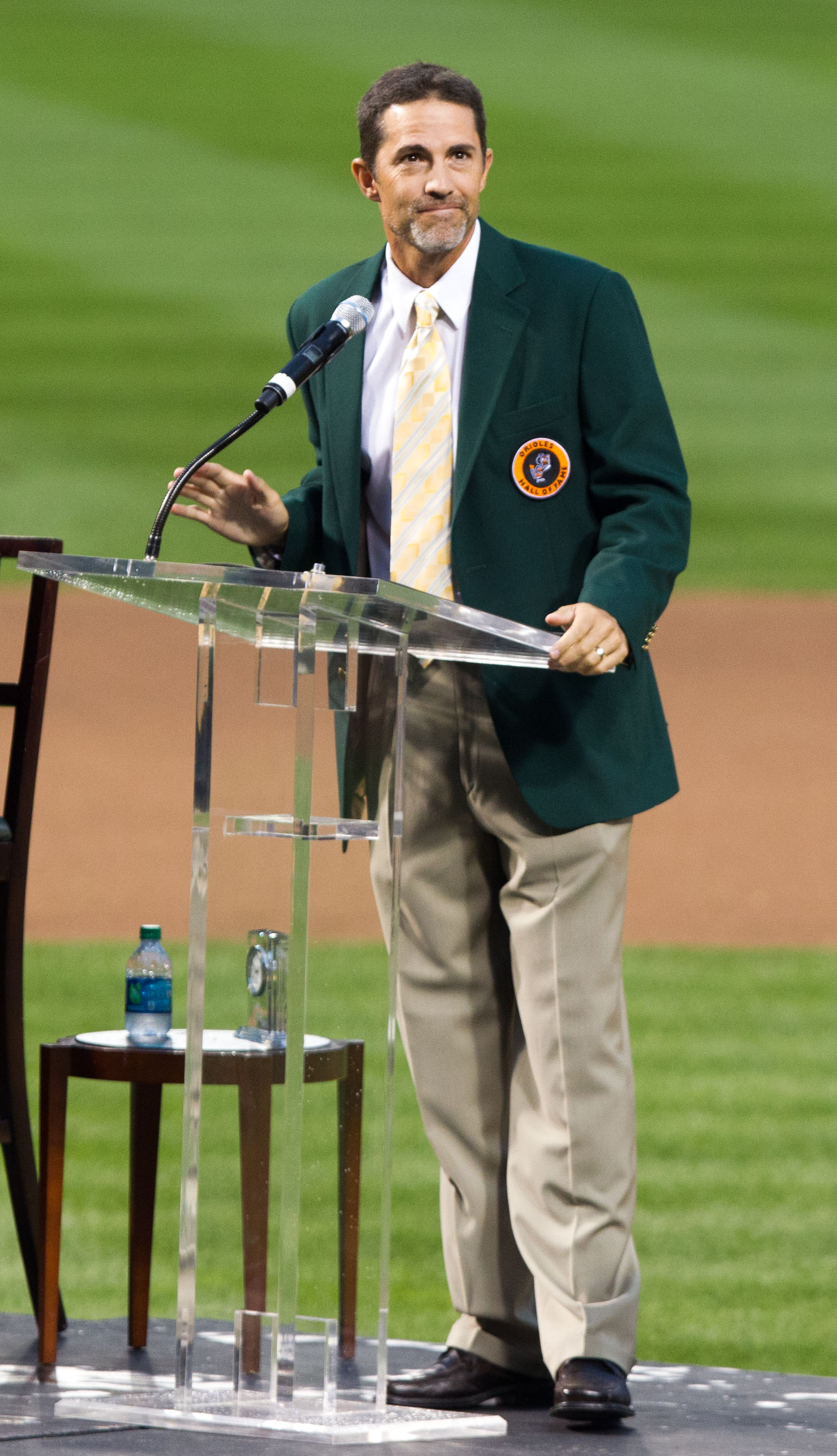 Mike Mussina during the Baltimore Orioles Hall of Fame ceremony prior to a game against the Toronto Blue Jays at Oriole Park at Camden Yards on August 25, 2012.